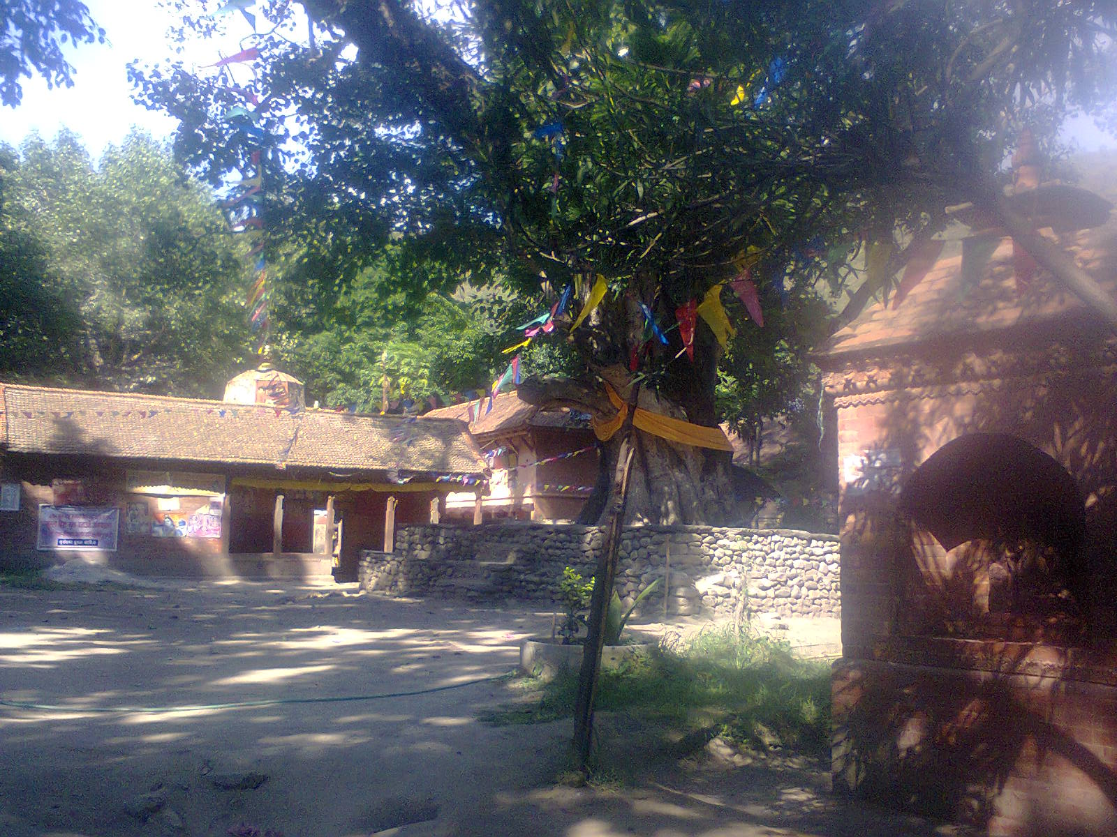 कुशेश्वर महादेव मन्दिर परिसर